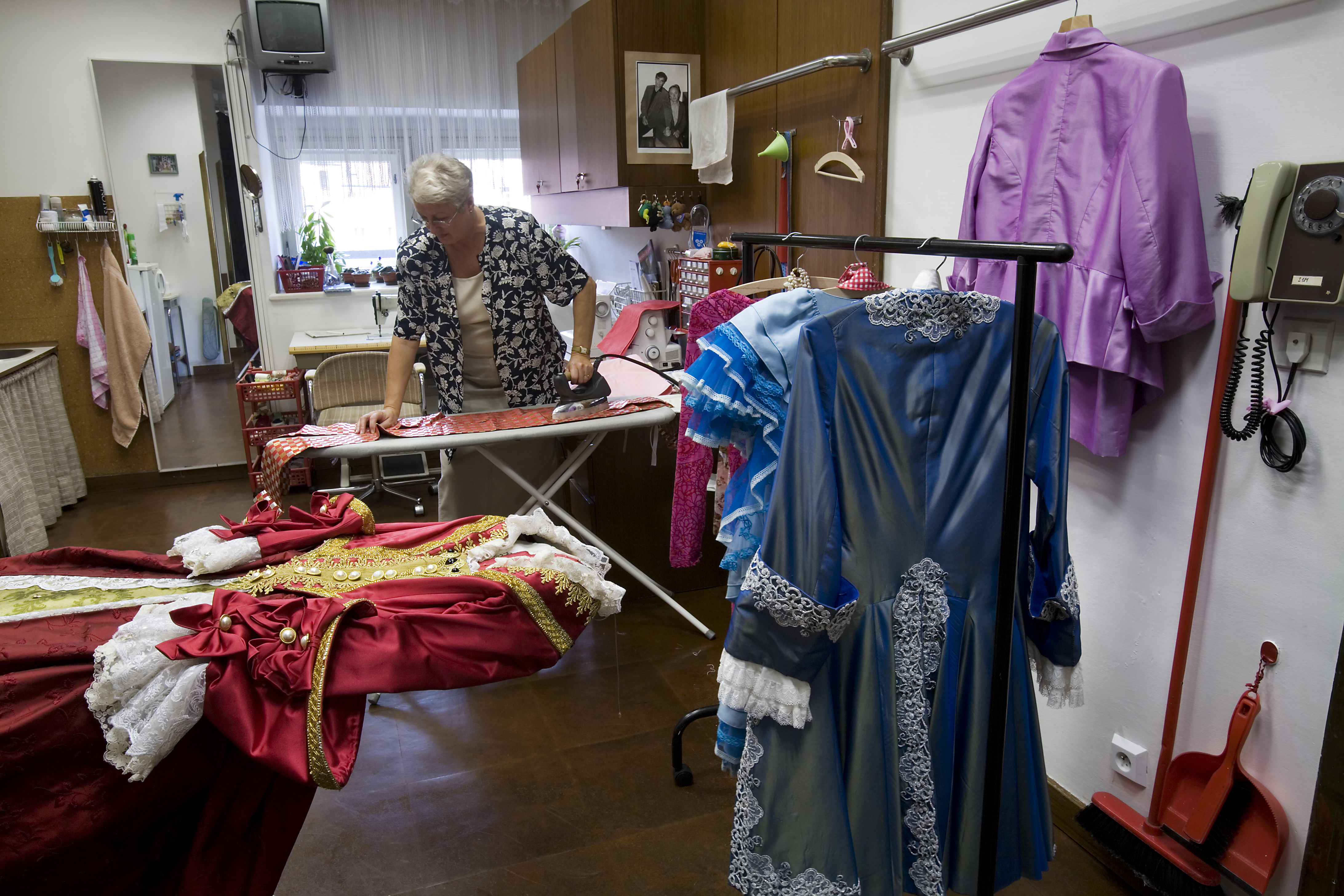 Costume workshop at a theatre, Prague